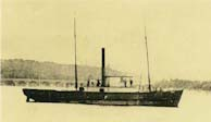 SS "Grappler", a packet steamer that plied the waters along the east coast of vancouver Island during the last half of the 19th century. The "grappler" brought the first load of settlers to the Comox Valley in 1862.